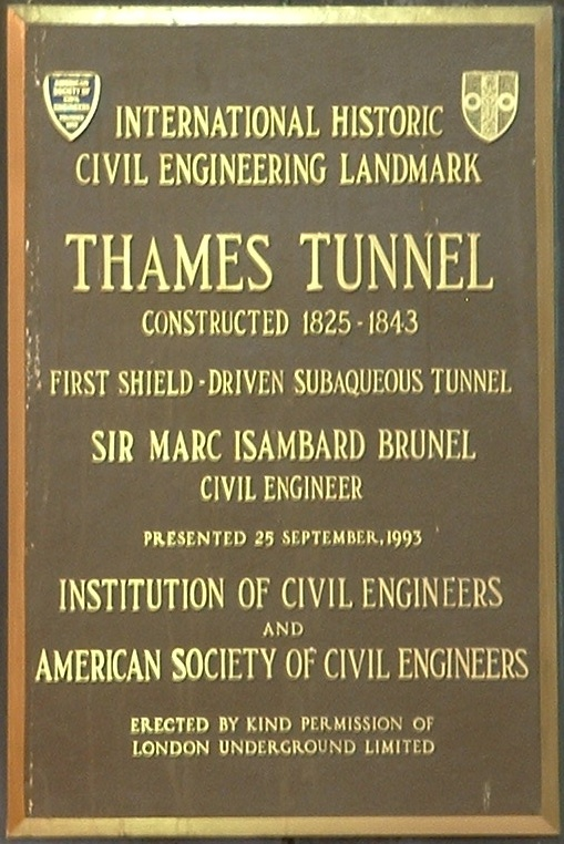 Thames Tunnel commemorative plaque at Rotherhithe tube station. Photo taken the day the East London line shut down for refurbishment/extension in 2007.